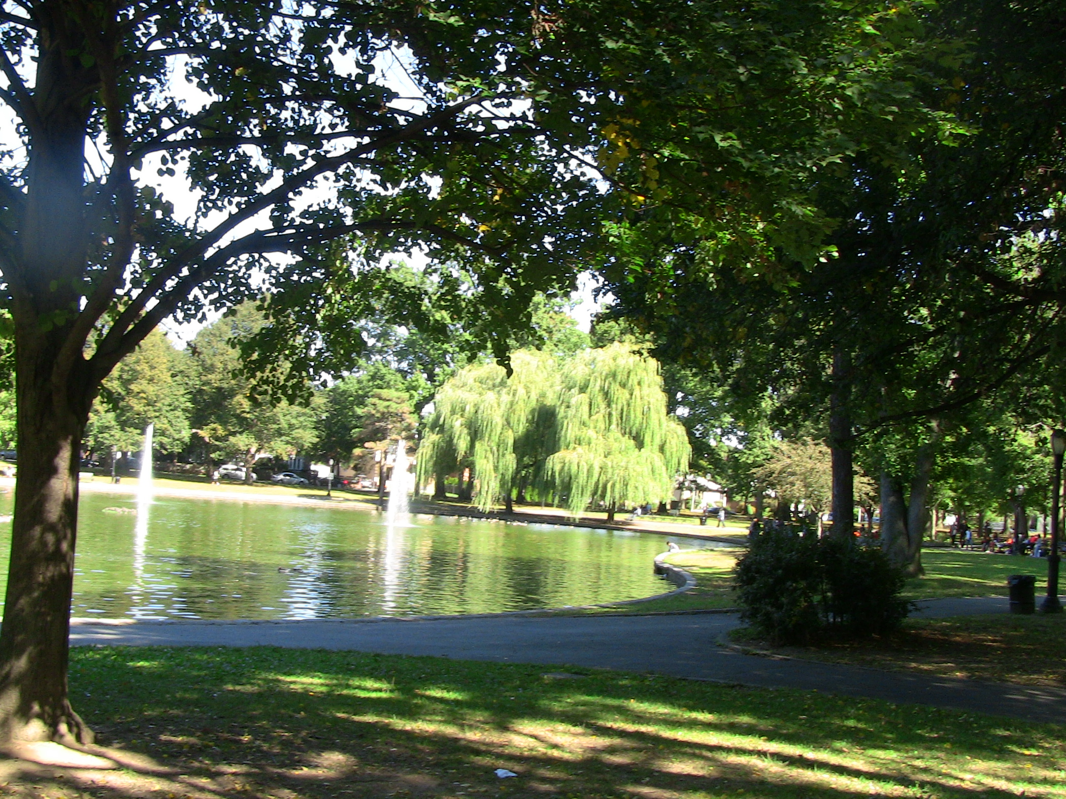 Broadway-Flushing Historic District, Roughly bounded by 29th Ave., 163rd St., 32nd Ave., 192nd St., 154th and 153rd Sts. Flushing